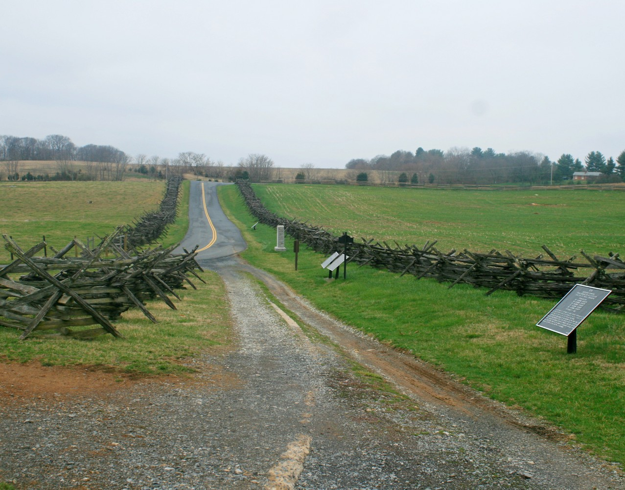 Antietam, Sanken Road, position of Rodes Alabama brigade